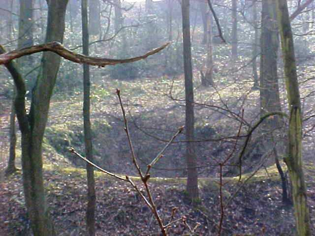 Depression or bellpit in Middleton Woods